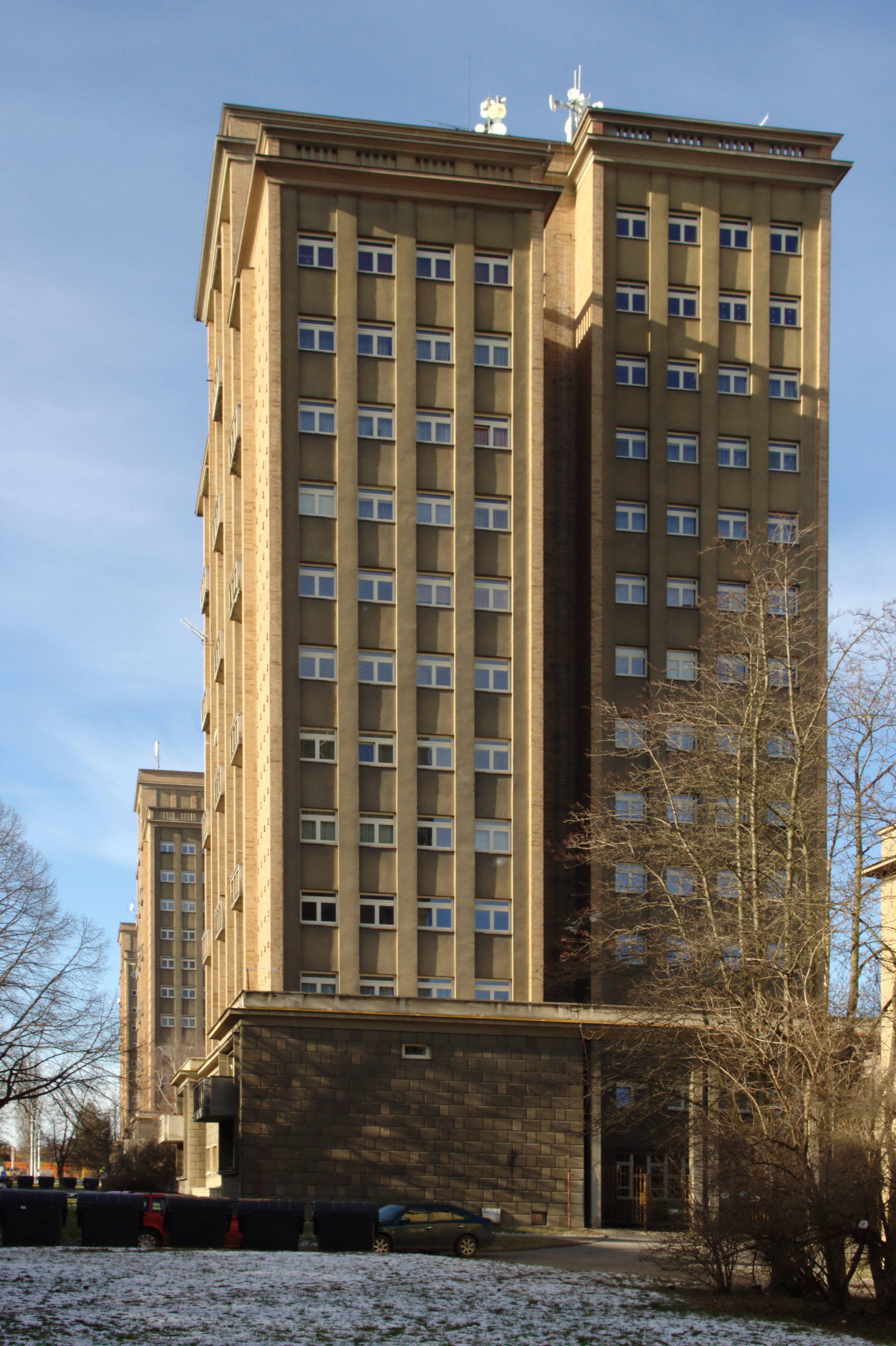 Apartment blocks in Kladno-Rozdělov, Central Bohemian Region, CZ